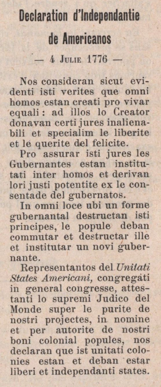 Translation of an extract of the United States Declaration of Independence in constructed language romanal.